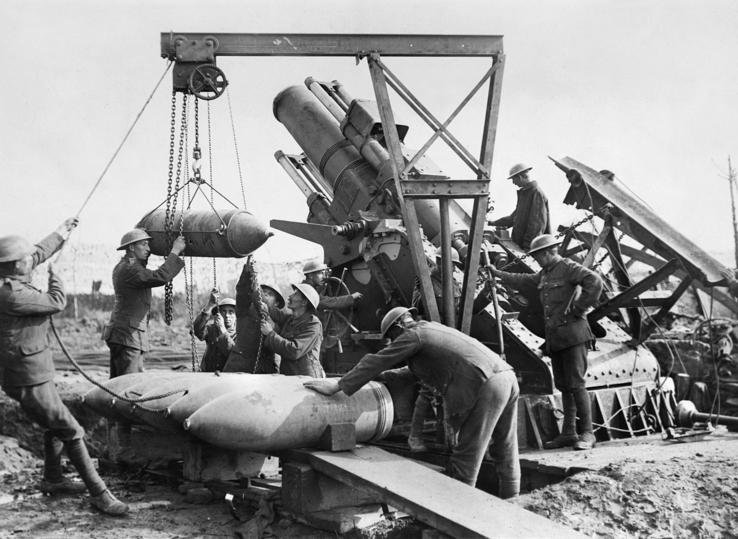 Royal Marine Artillery crew loading a 15-inch howitzer near the Menin Road during the Third Battle of Ypres.